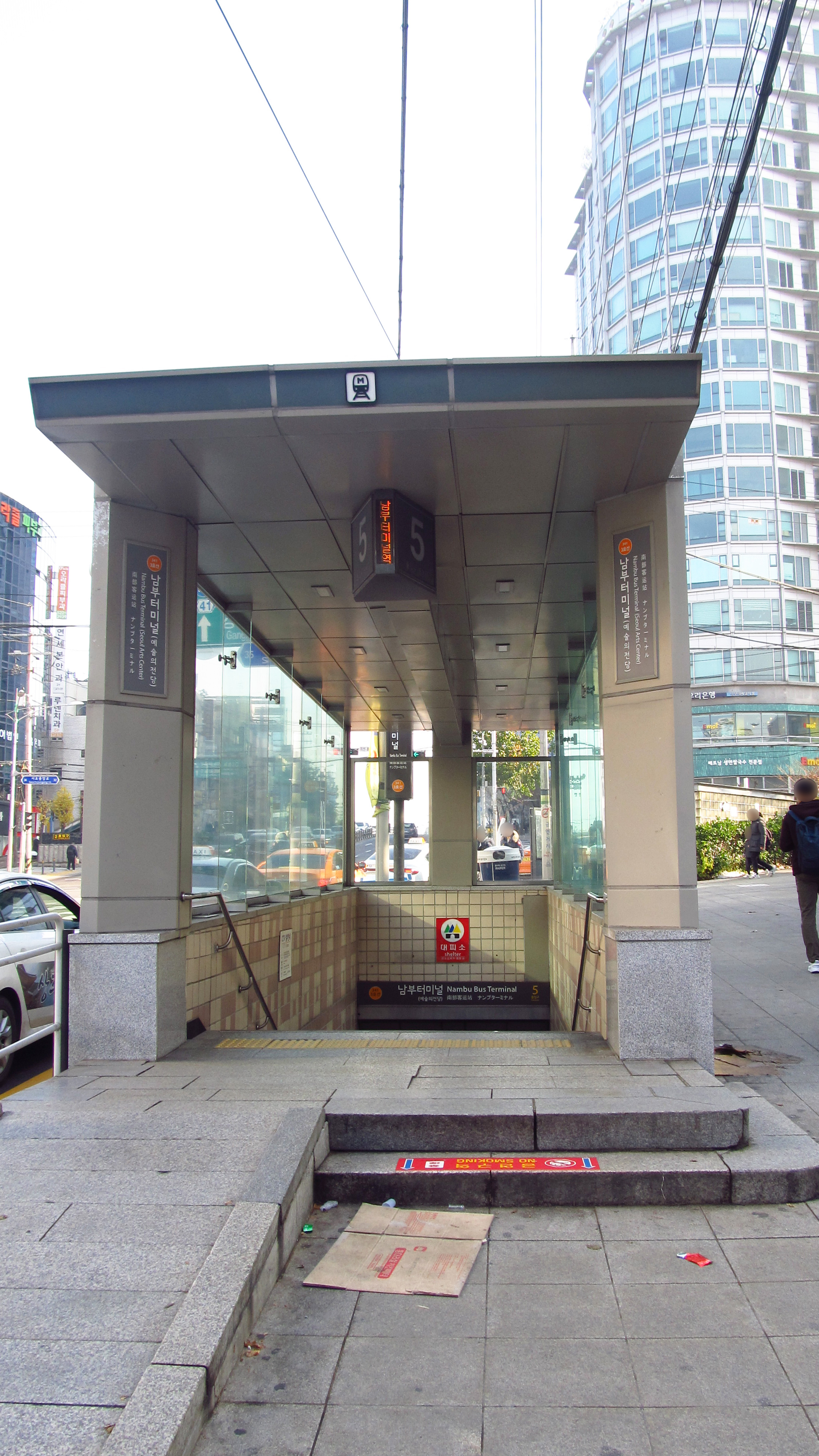 The no.5 entrance to Nambu Bus Terminal Station on the Seoul Metro Line 3 in Seocho-gu, Seoul, Republic of Korea(South Korea)